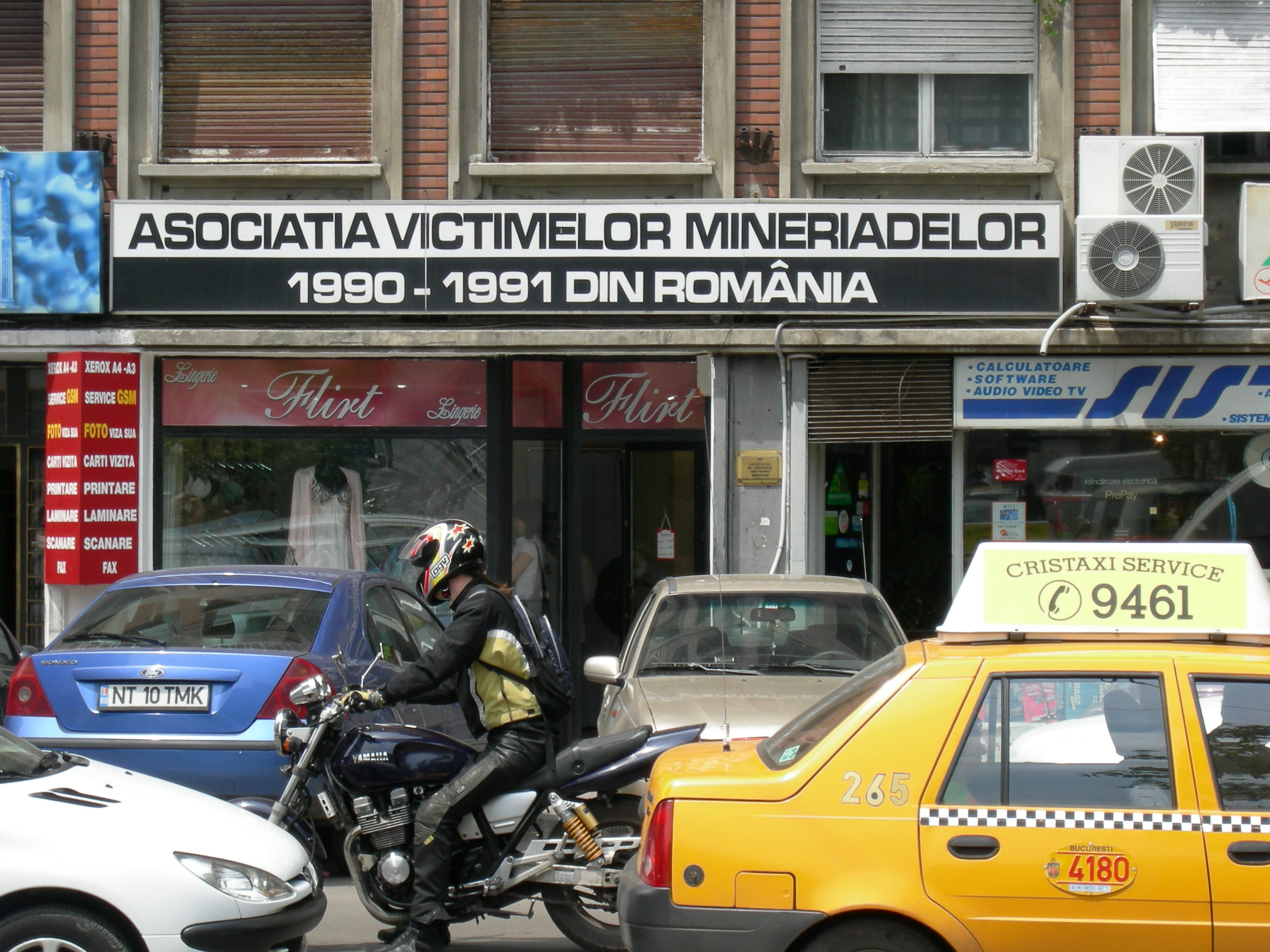 Headquarters of the Association of Victims of the Mineriad, Bucharest, Romania